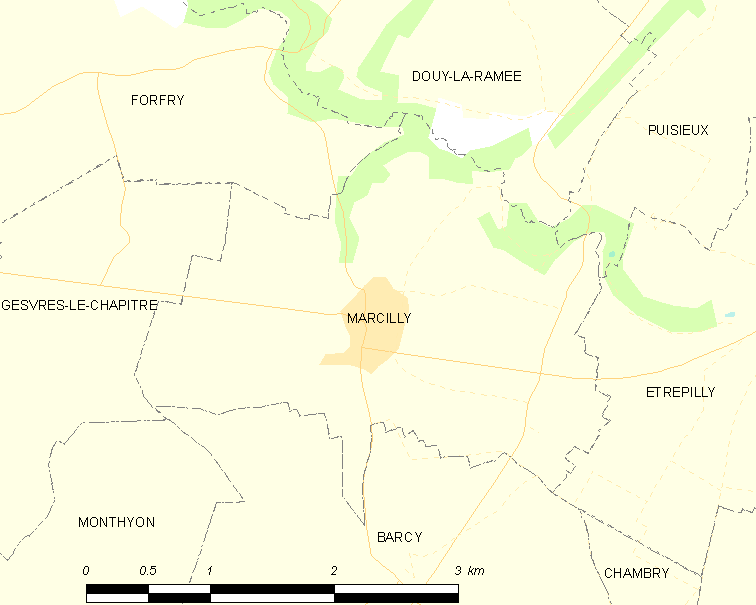 Map of French municipality Marcilly